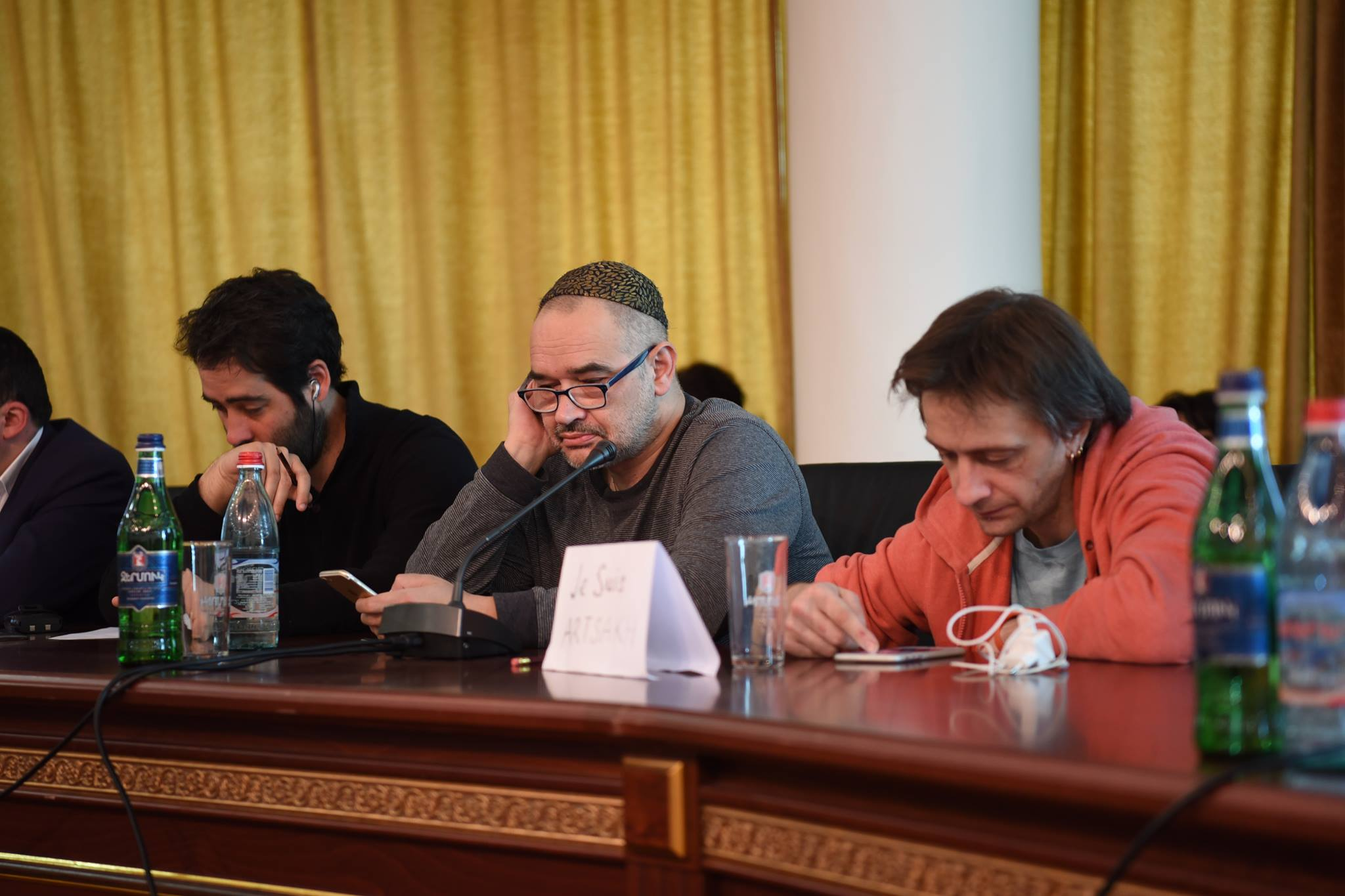 Anton Nosik